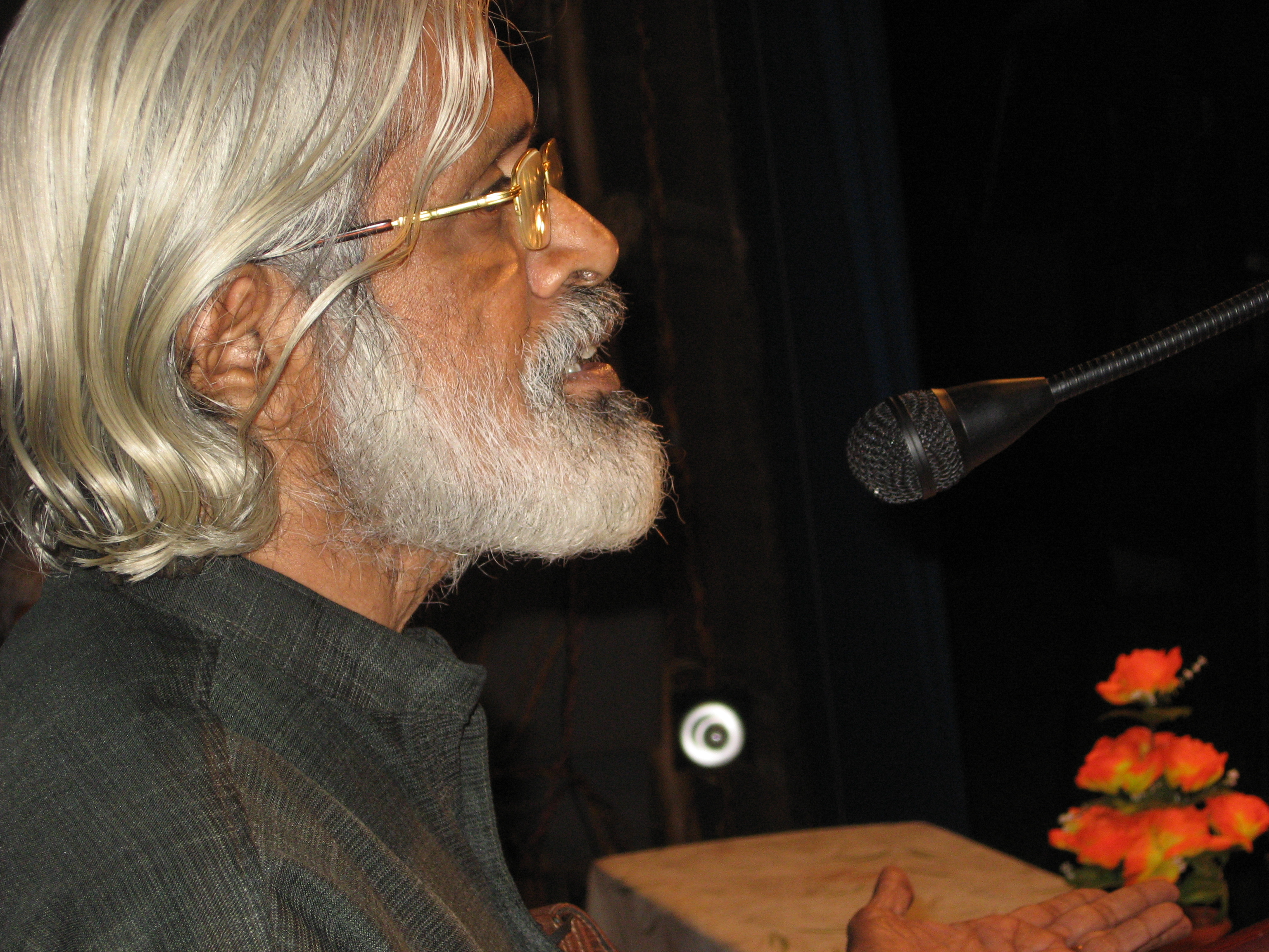 artist